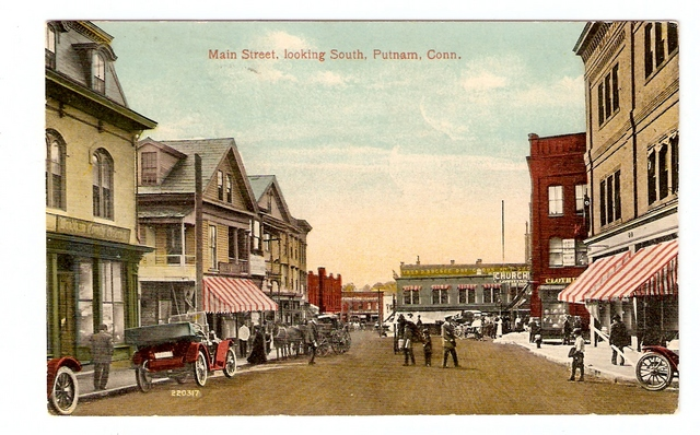 Postcard: "Main Street, looking South, Putnam, Conn." Postmark: 1915 Description: "MAIN STREET LOOKING SOUTH, PUTNAM, CONN., USED POSTCARD WITH DIVIDED BACK. POSTMARKED 1915" Source: eBay auction Web page